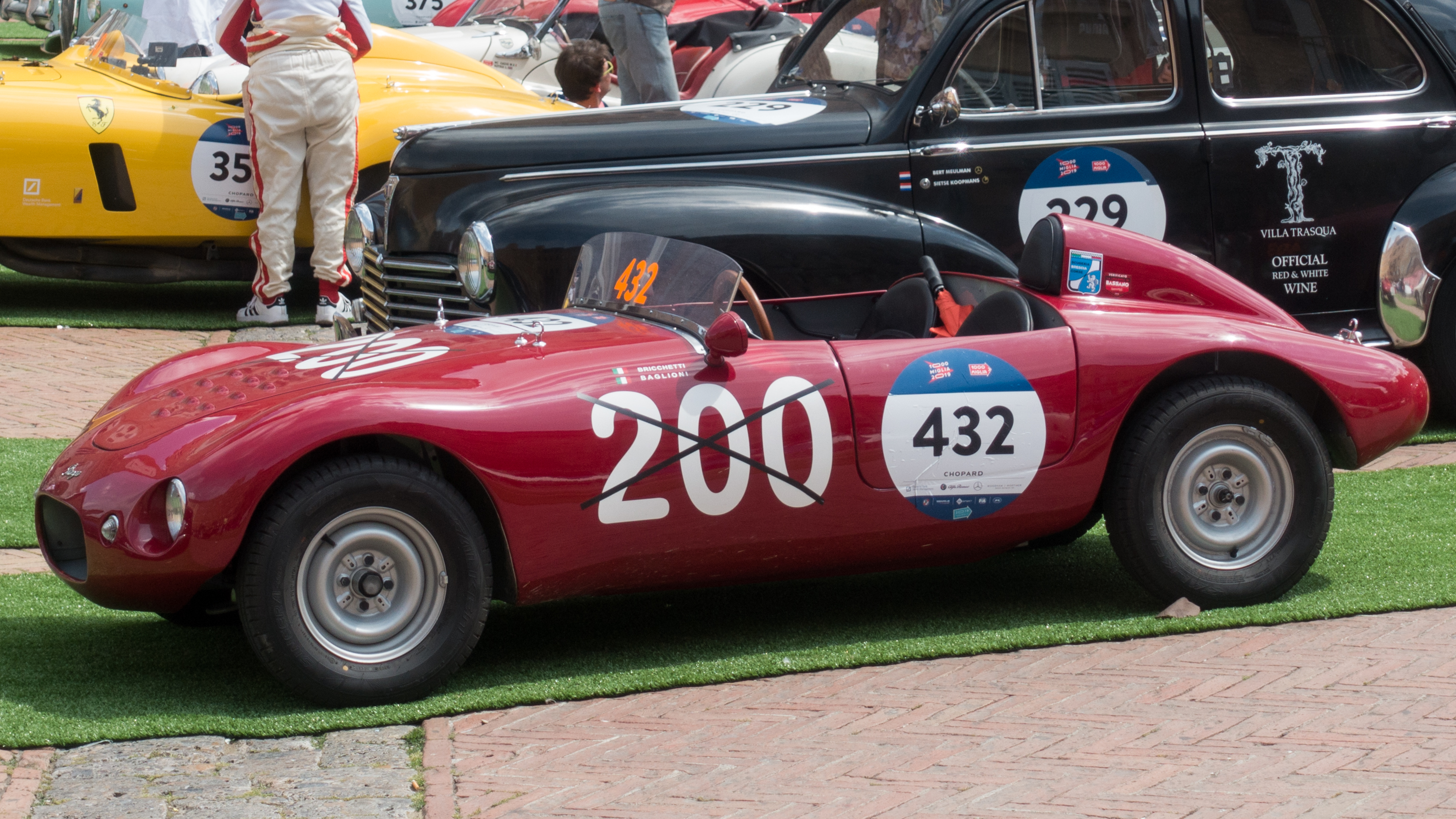 Stanga 750 S (1956) in Siena at Mille Miglia 2019